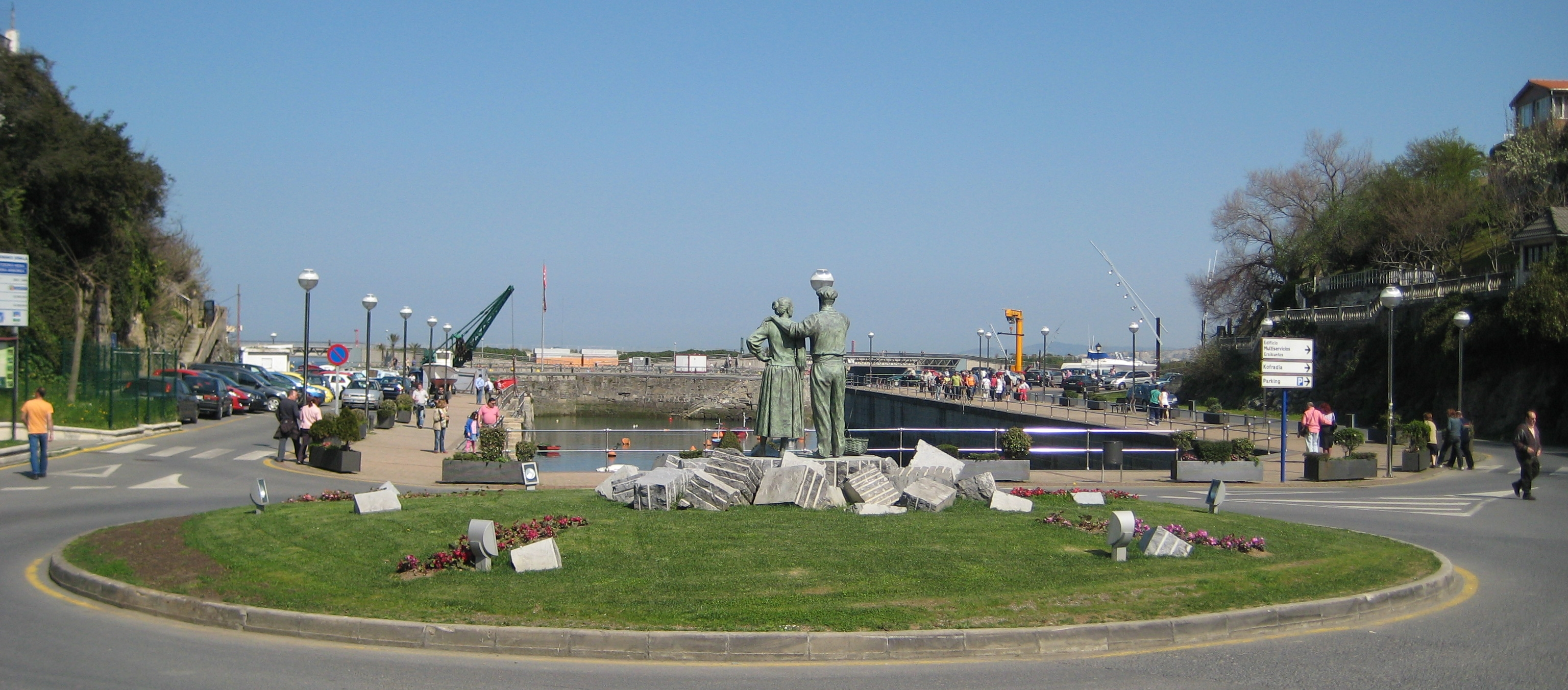 Roundabout at the port of Zierbena